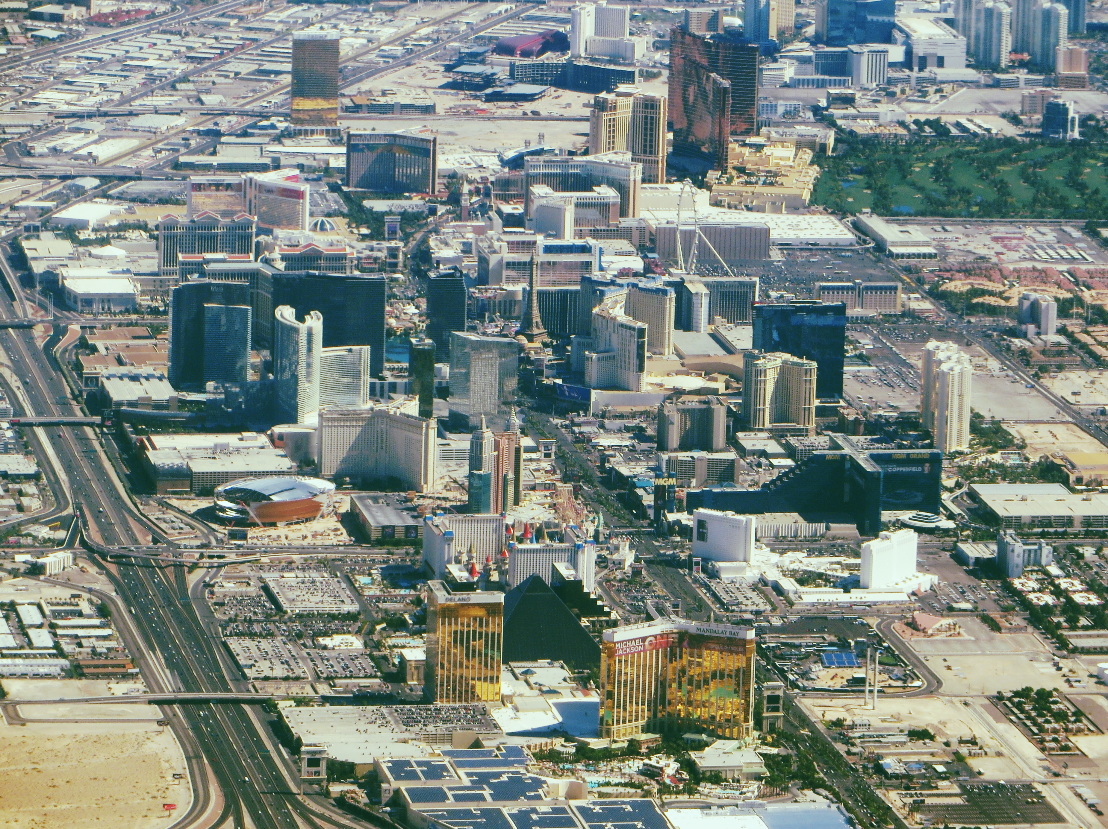 The Las Vegas Strip is an approximately 4.2-mile (6.8 km) stretch of Las Vegas Boulevard South in Clark County, Nevada. The Strip is not located within the City of Las Vegas but it passes through the unincorporated towns of Paradise and Winchester, which are south of the Las Vegas city limits. Most of the Strip has been designated an All-American Road. Many of the largest hotel, casino and resort properties in the world are located on the Las Vegas Strip. Fifteen of the world's 25 largest hotels by room count are on the Strip, with a total of over 62,000 rooms. One of the most visible aspects of Las Vegas' cityscape is its use of dramatic architecture. The modernization of hotels, casinos, restaurants, and residential high-rises on the Strip has established the city as one of the most popular destinations for tourists.